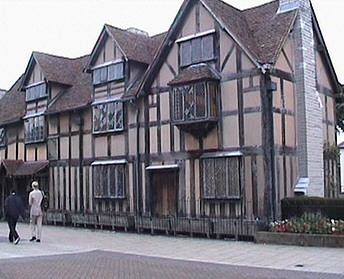 Shakespeare's Birthplace Stratford